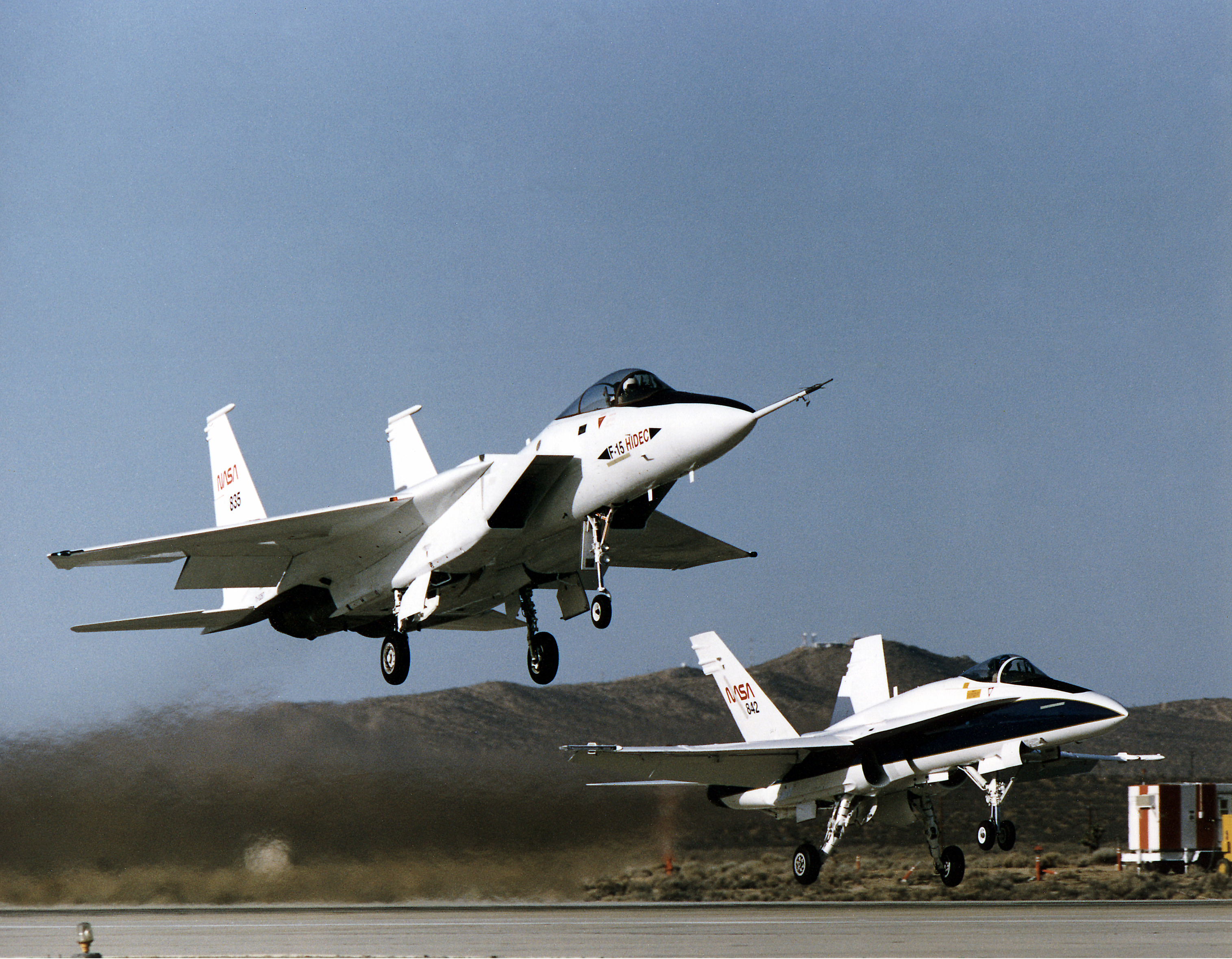 NASA's highly modified F-15 (left), used for digital electronic flight and engine control systems research, is accompanied by an F-18 chase support aircraft during its takeoff roll on a flight from the Dryden Flight Research Center, Edwards, California. The F-15A (Serial #71-0287) was called the HIDEC (Highly Integrated Digital Electronic Control) flight facility.